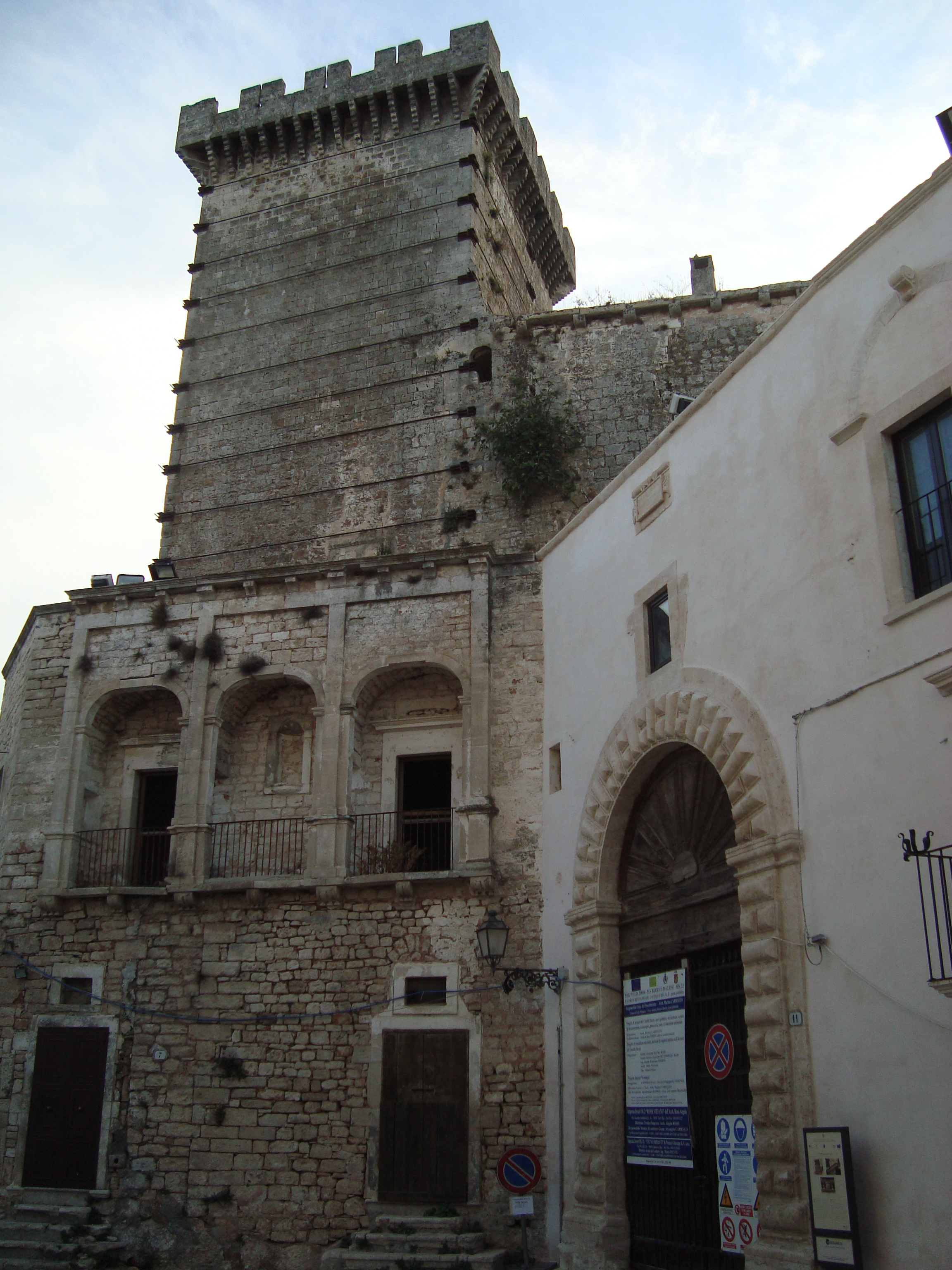 Castello Ducale in Ceglie Messapica